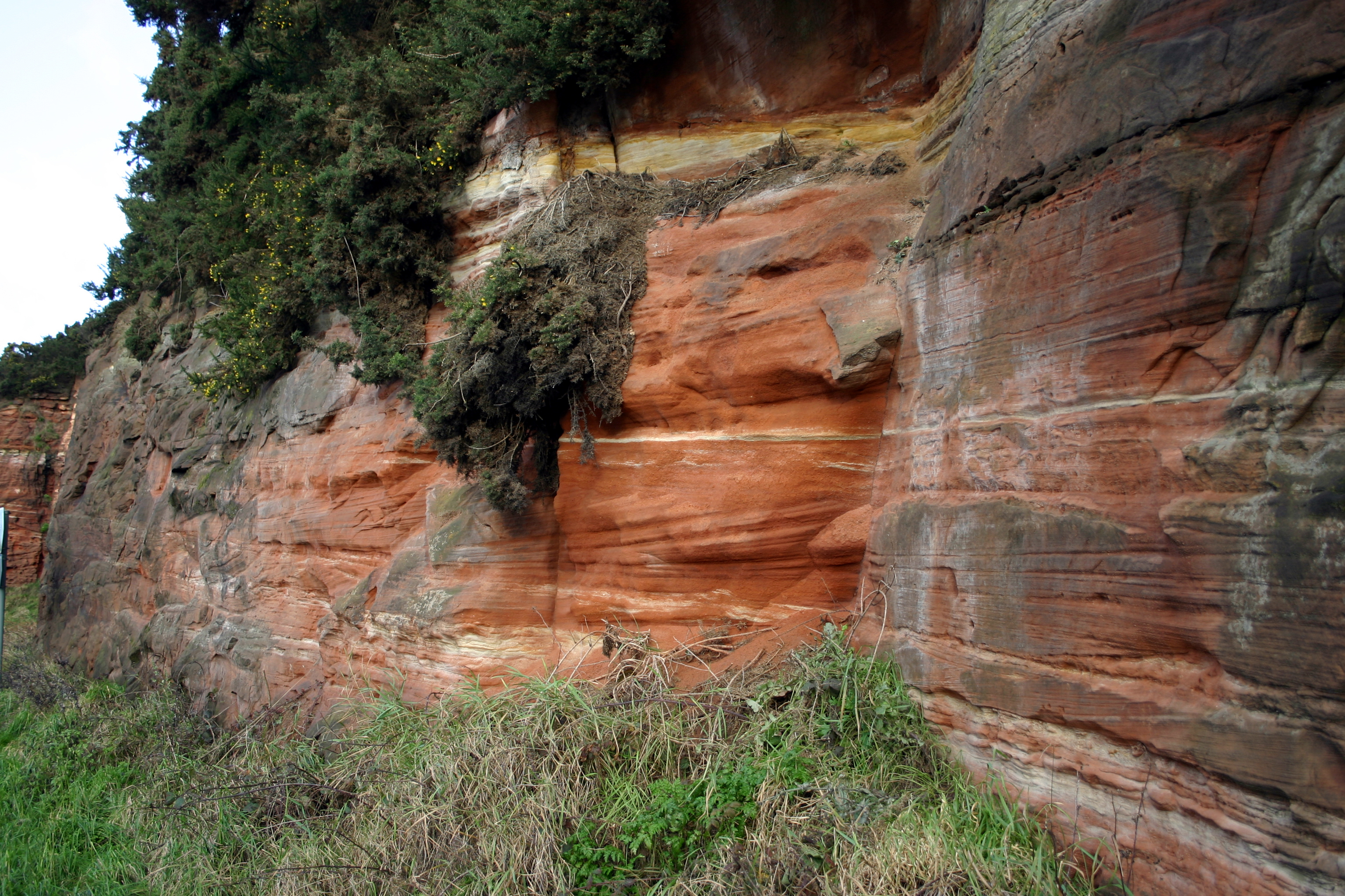 Triassic sandstones in the Castner-Kellner cutting below Runcorn Hill, Cheshire, England. Good cross-bedding.